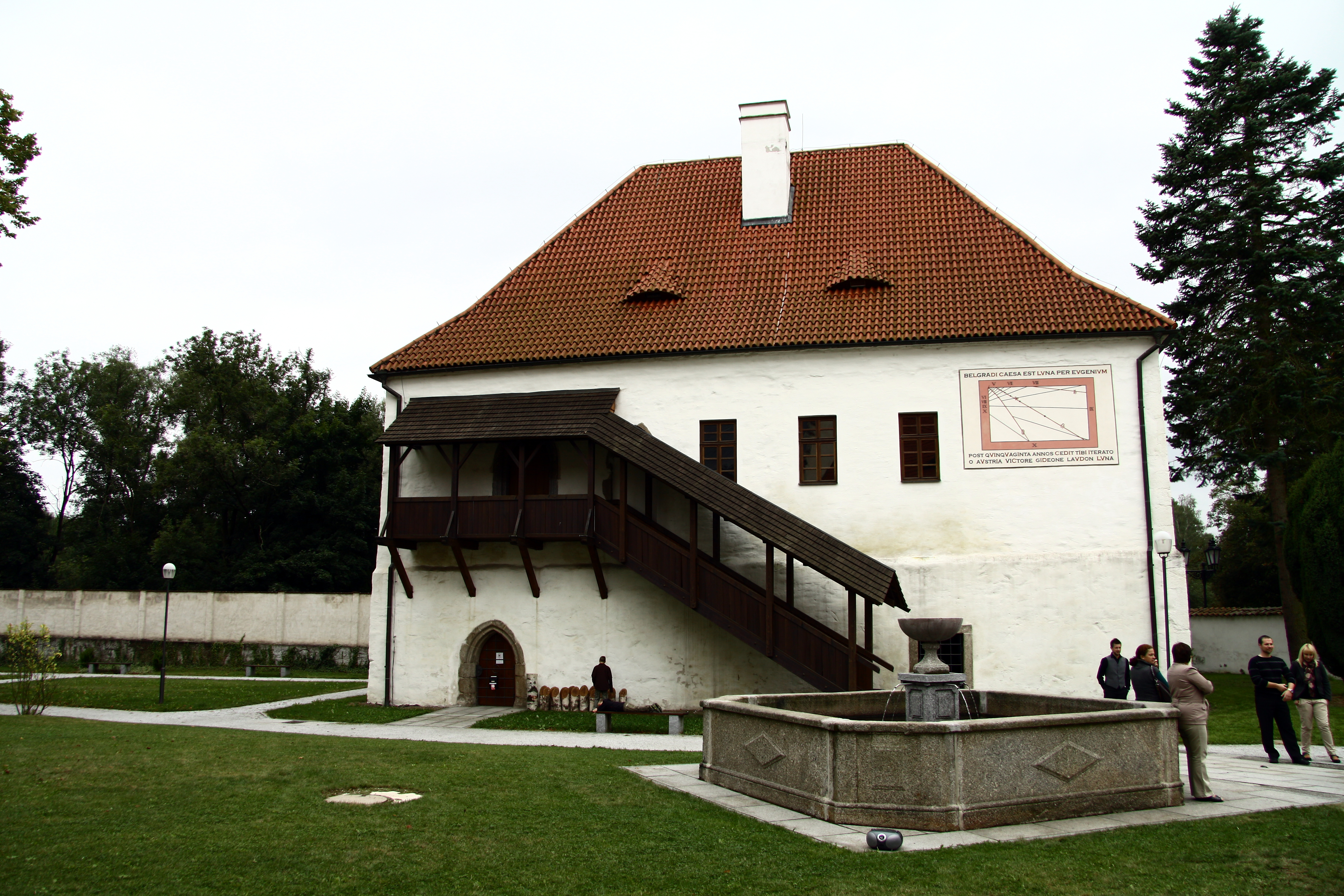 Milevsko Monastery in town Milevsko, Písek District, Czech Republic